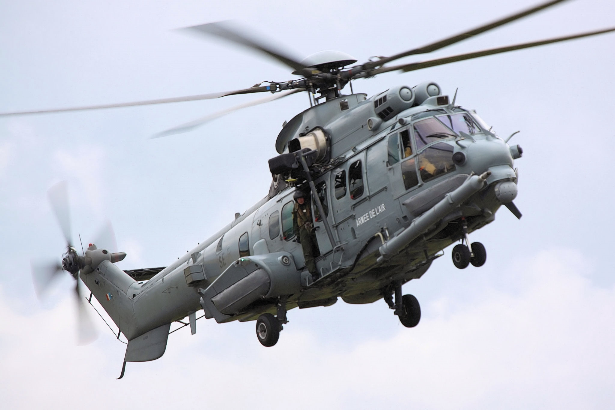 EC725 Caracal at RIAT 2009